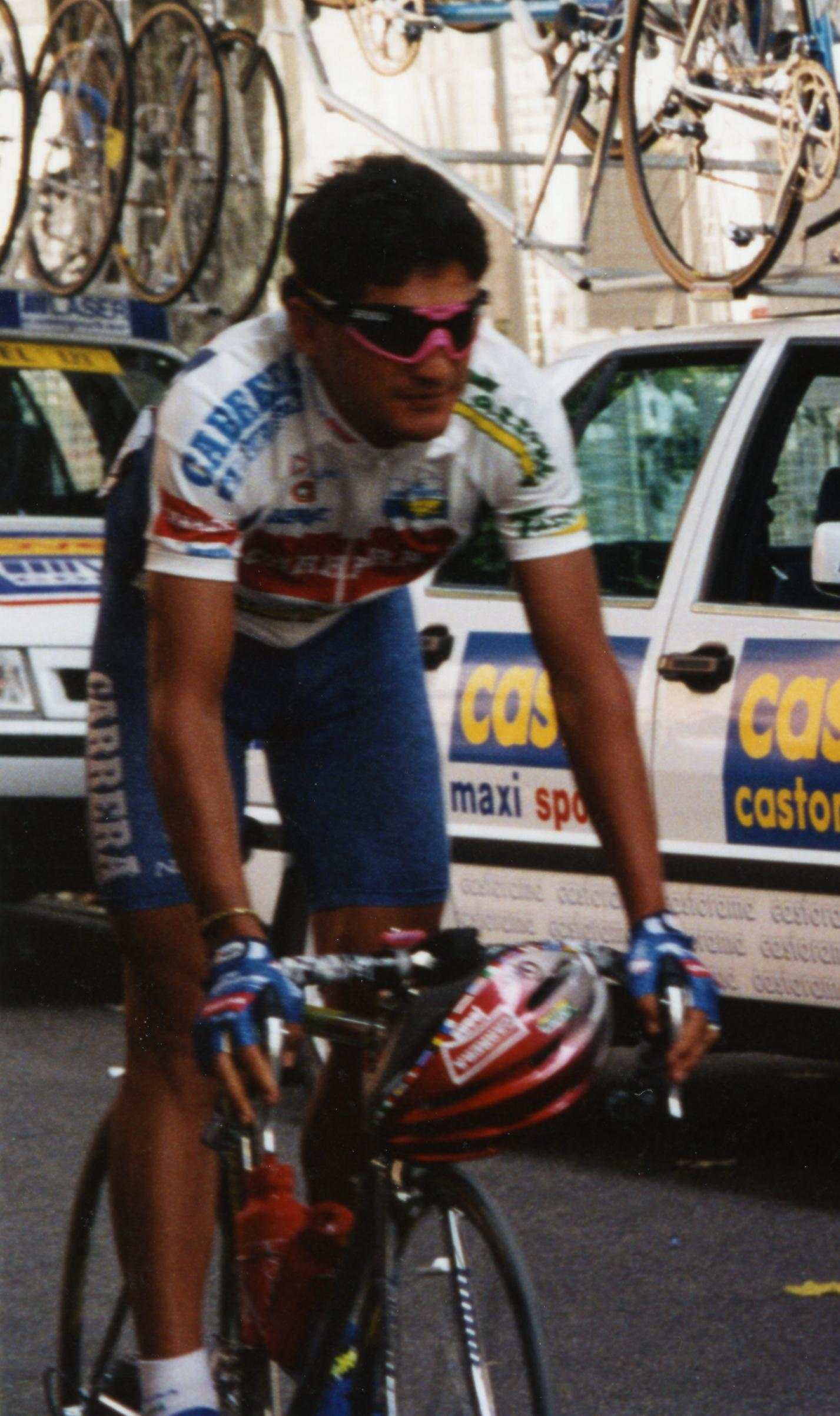 The Italian road cyclist Claudio Chiappucci at the 1993 Tour de France